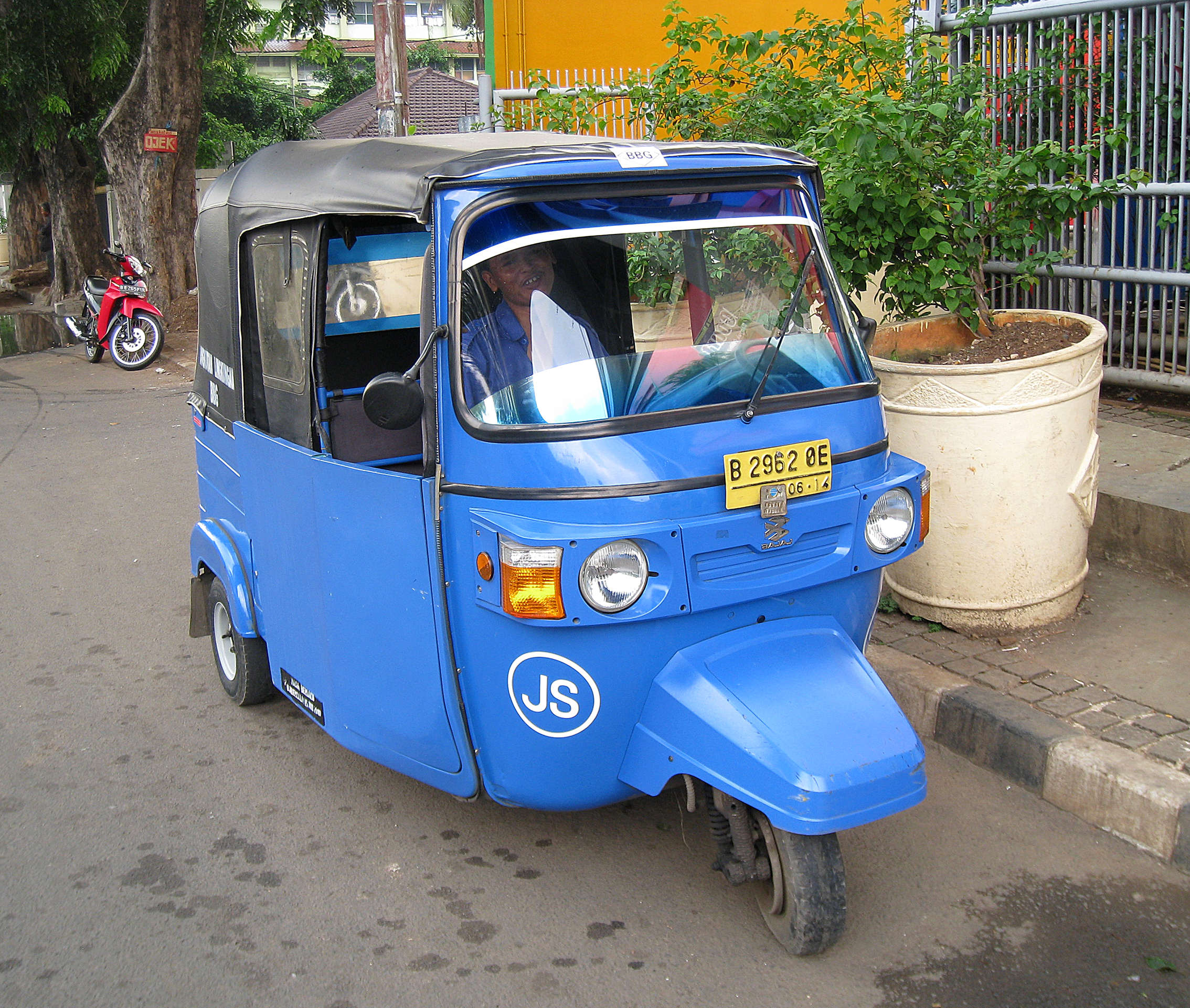 Natural Gas-fuelled Bajaj autorickshaw on Jakarta street.